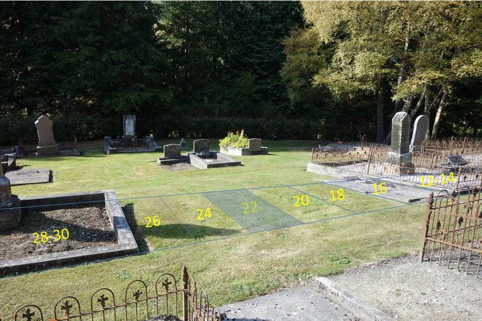 Waitati Cemetery in April 2013. Showing the grave plot (number 22) of Fred Hobbs.